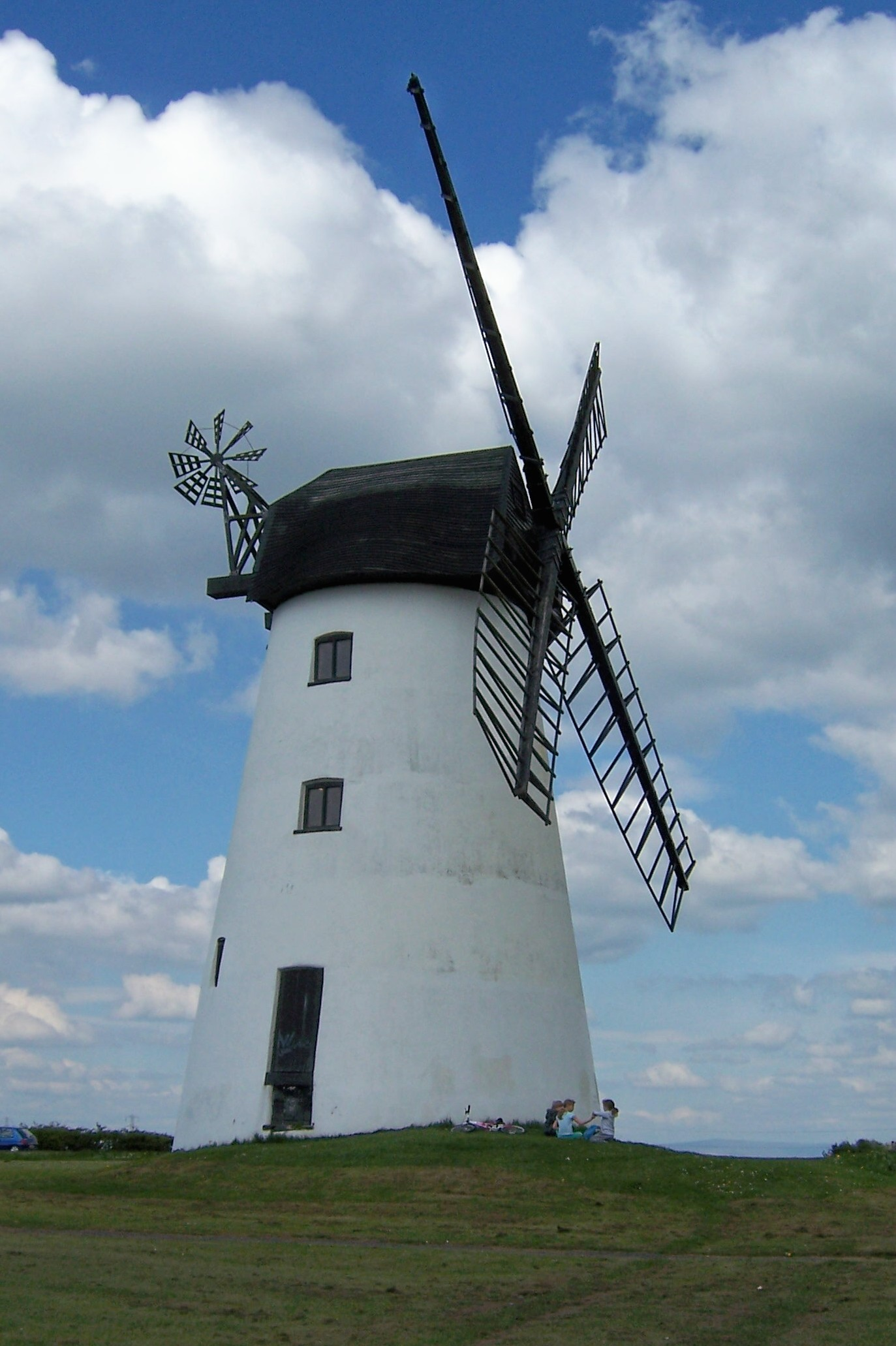 Windmill, Little Marton, Blackpool - near to Staining, Lancashire, Great Britain.